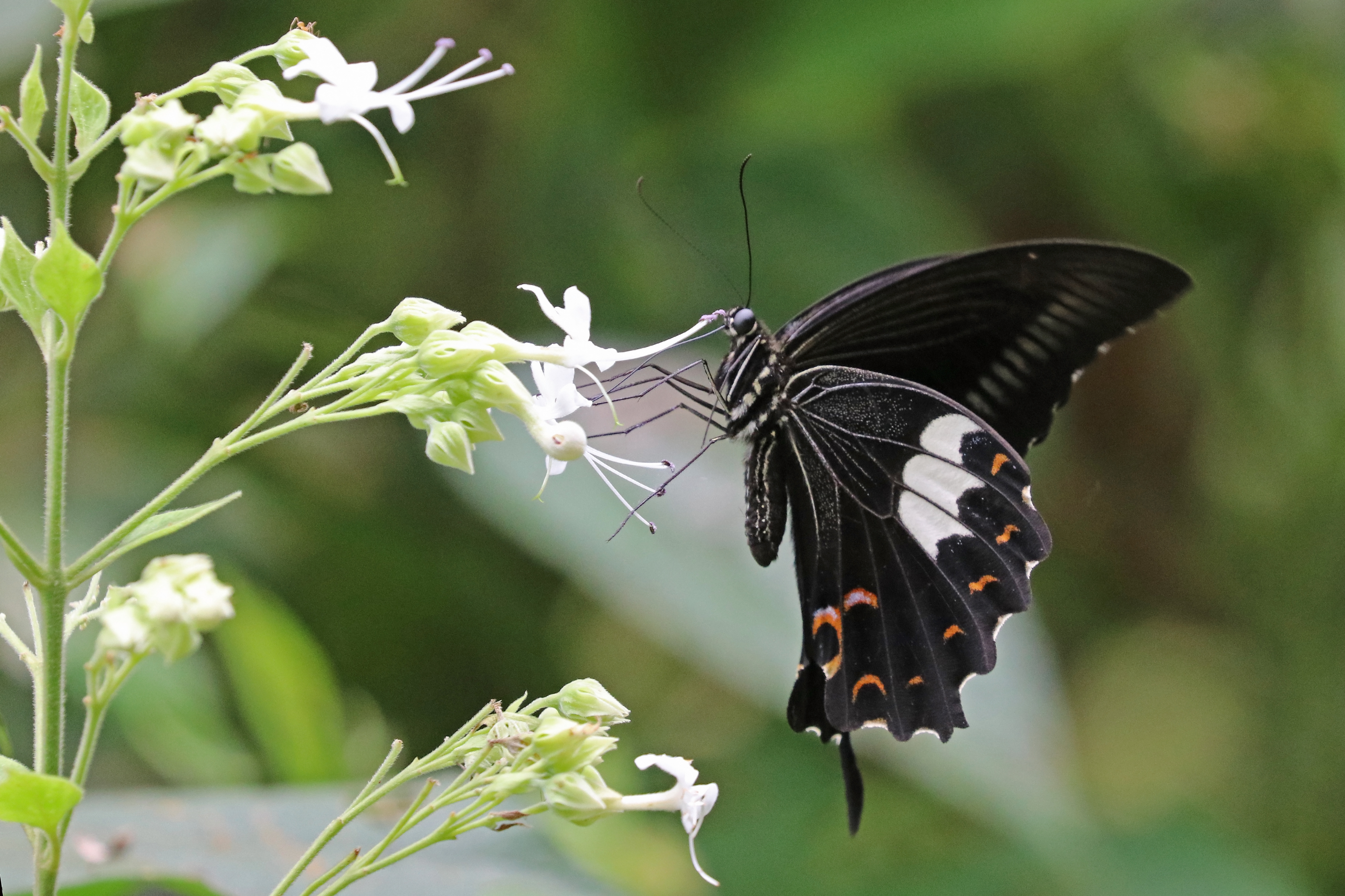 Red helen (Papilio helenus daksha), Kumarakom, Kerala, India